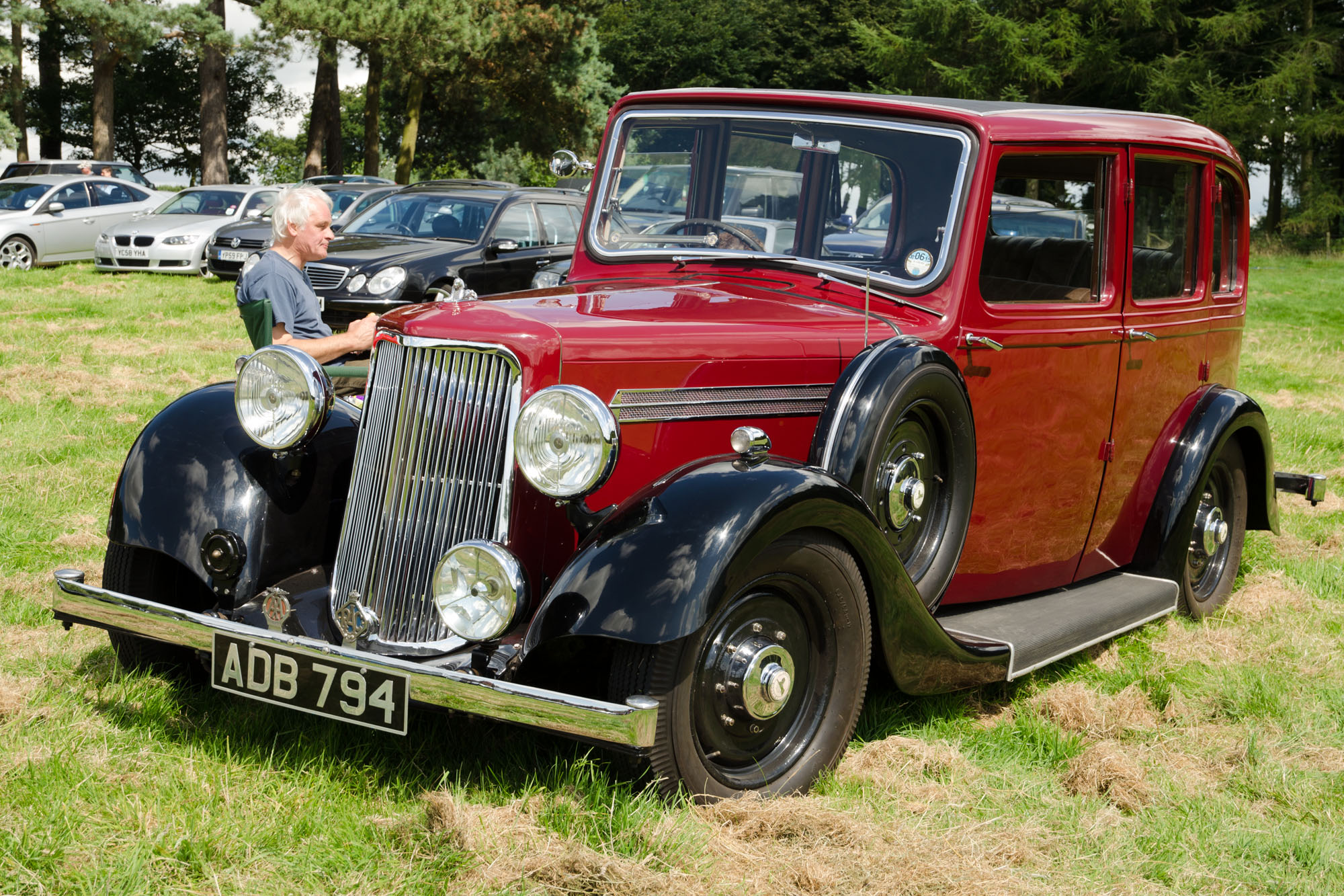 Capesthorne Hall Classic Car Show 27/07/2014